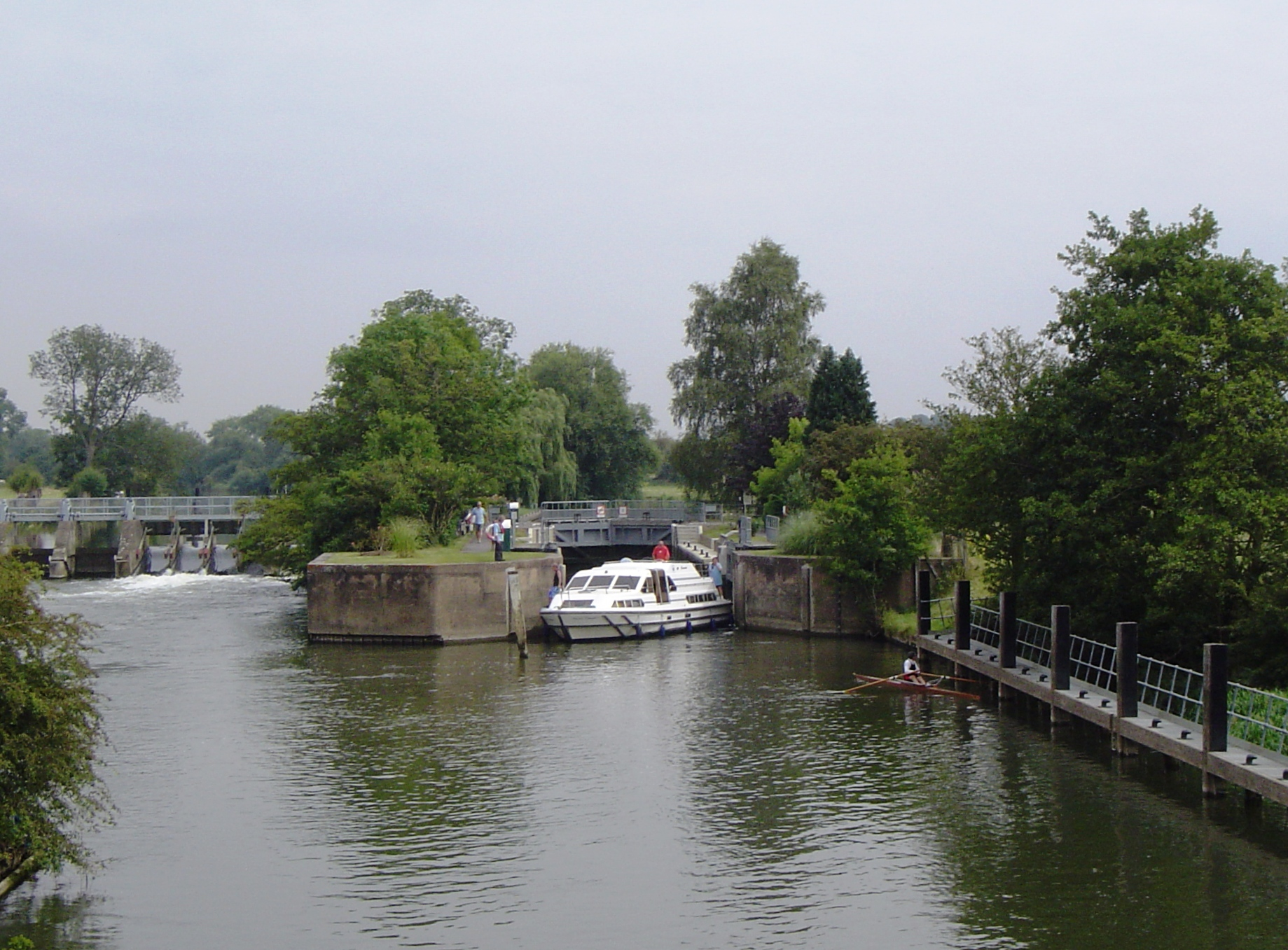 Day's Lock River Thames - sculler waiting to enter as cruiser attempts to come out sideways